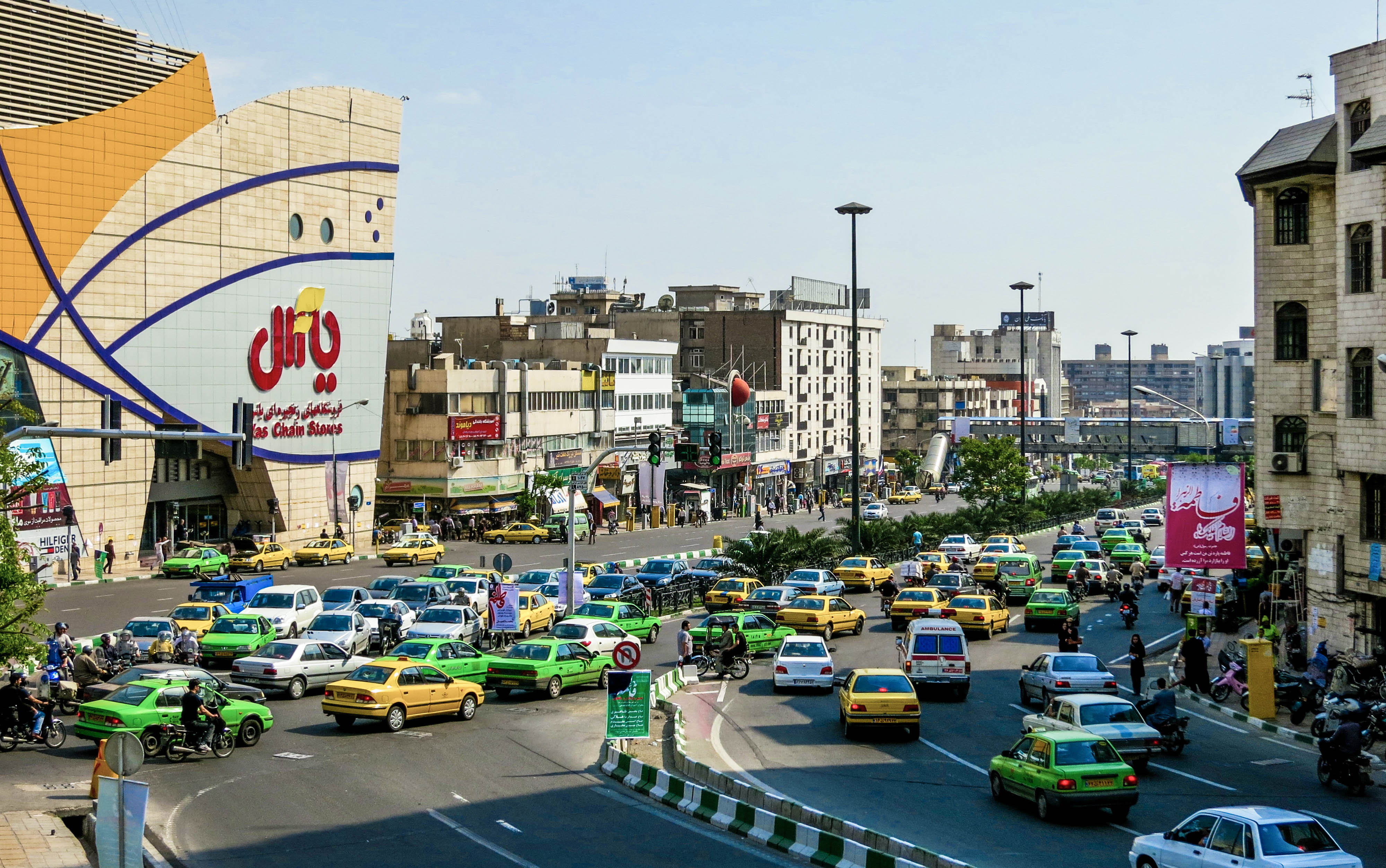 Haft-e Tir (Haftom-e Tir or 7 Tir) Square of Tehran